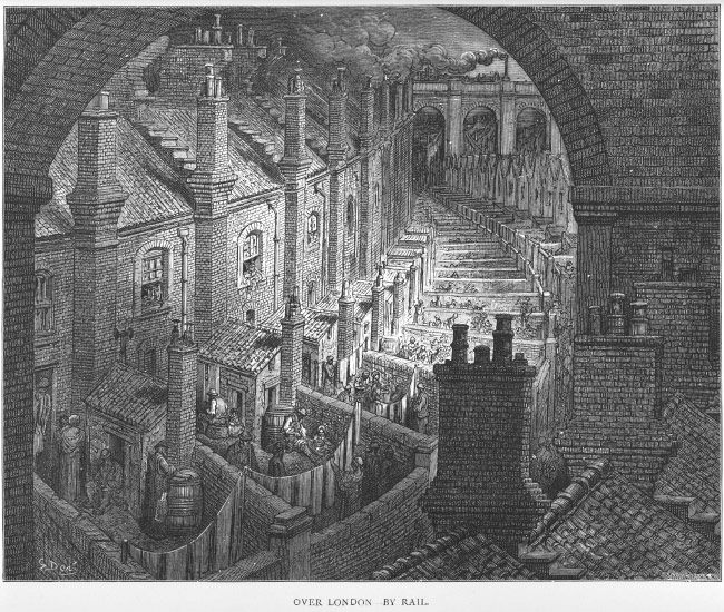 Over London–by Rail from London: A Pilgrimage (1872)